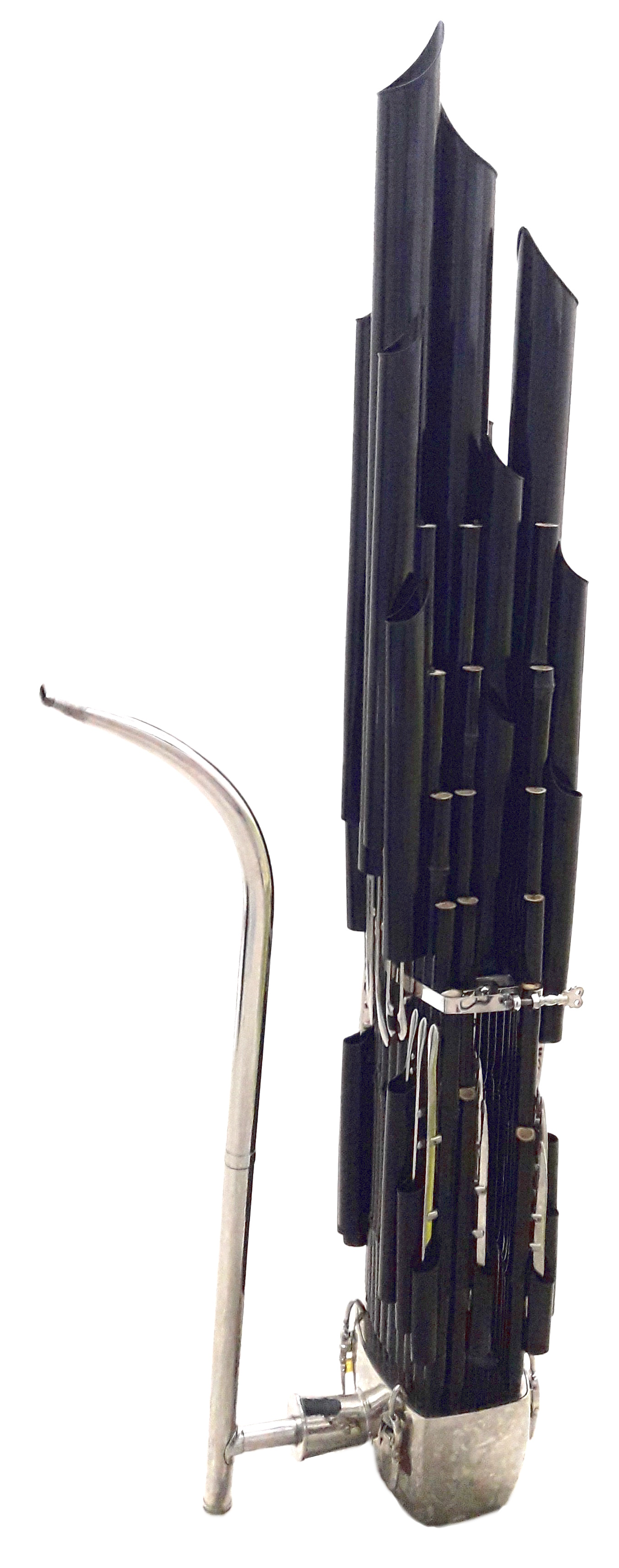 A soprano sheng produced by Zhao Hongliang.